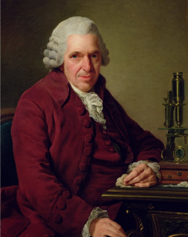 Portrait of French naturalist Louis Jean-Marie Daubenton (1716-1800)